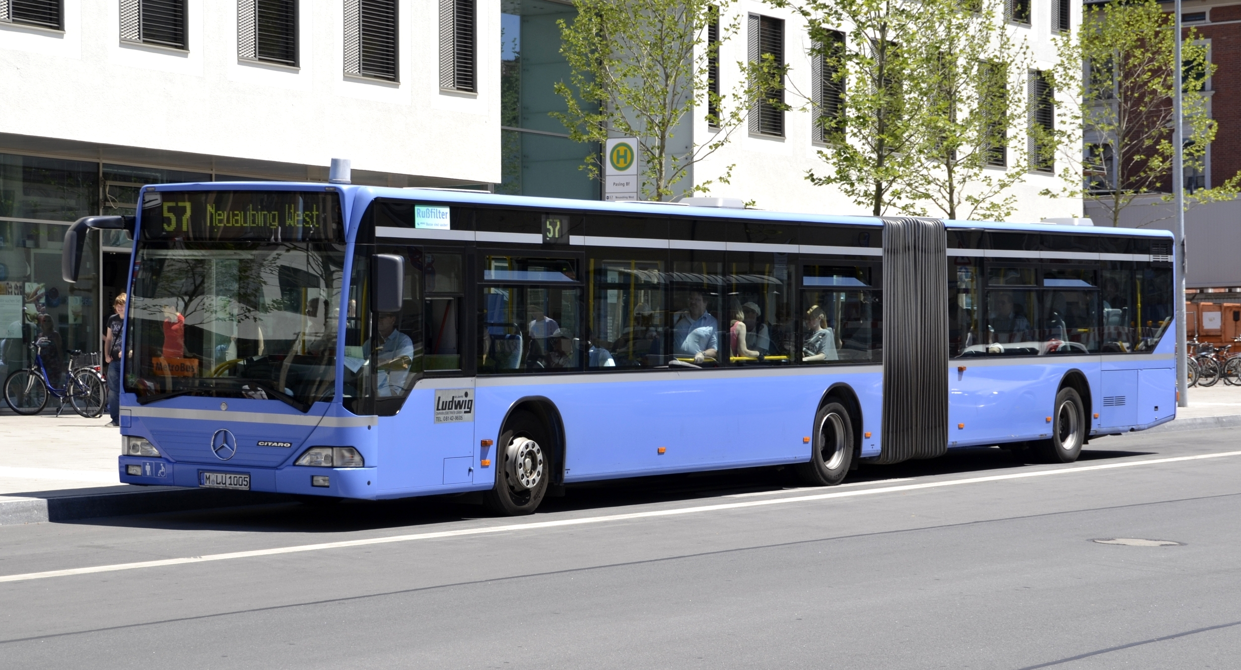 Mercedes-Benz Citaro public bus in Munich-Pasing.